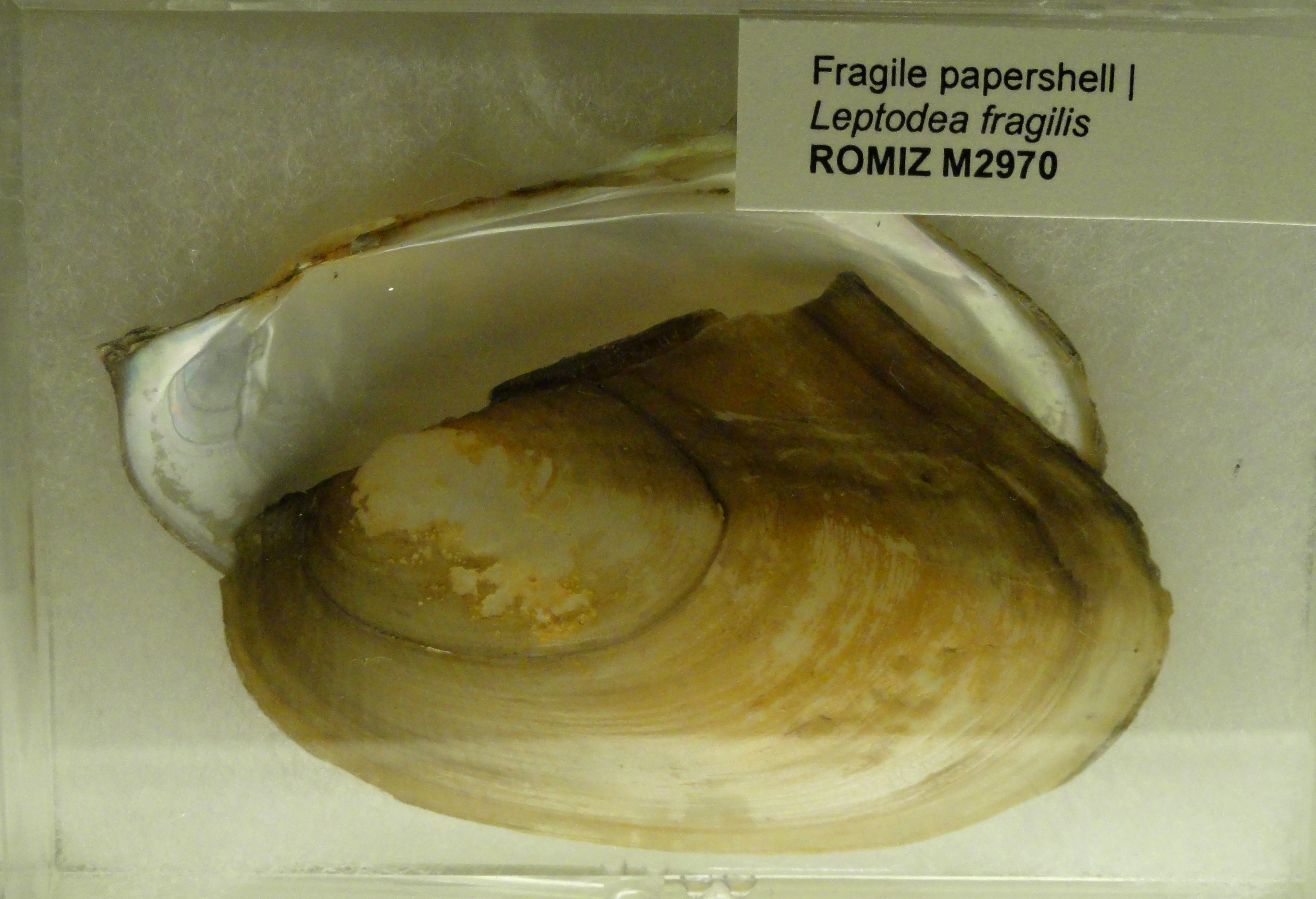 Exhibit in the Royal Ontario Museum, Toronto, Ontario, Canada. Photography was permitted in the museum. I took this photograph and release it into the public domain.